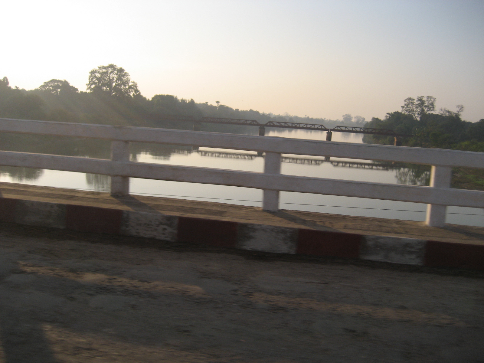 Mu River from Nyaungbin Wun Bridge on Sagaing - Monywa road, Myanmar